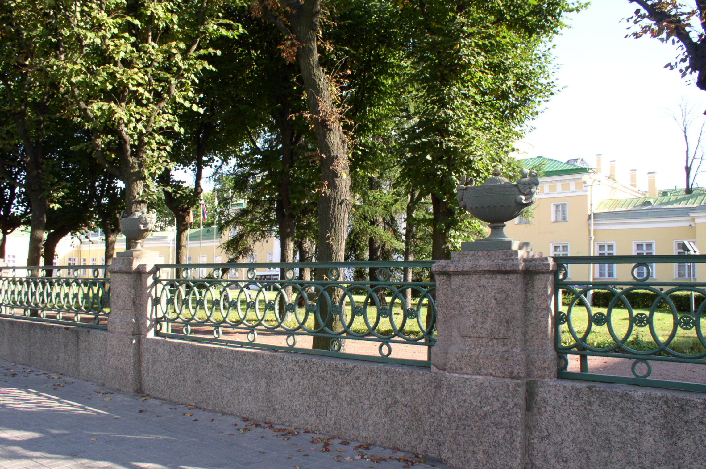 The fence of Tauride Palace in Saint Petersburg. 3 сентября 2006.